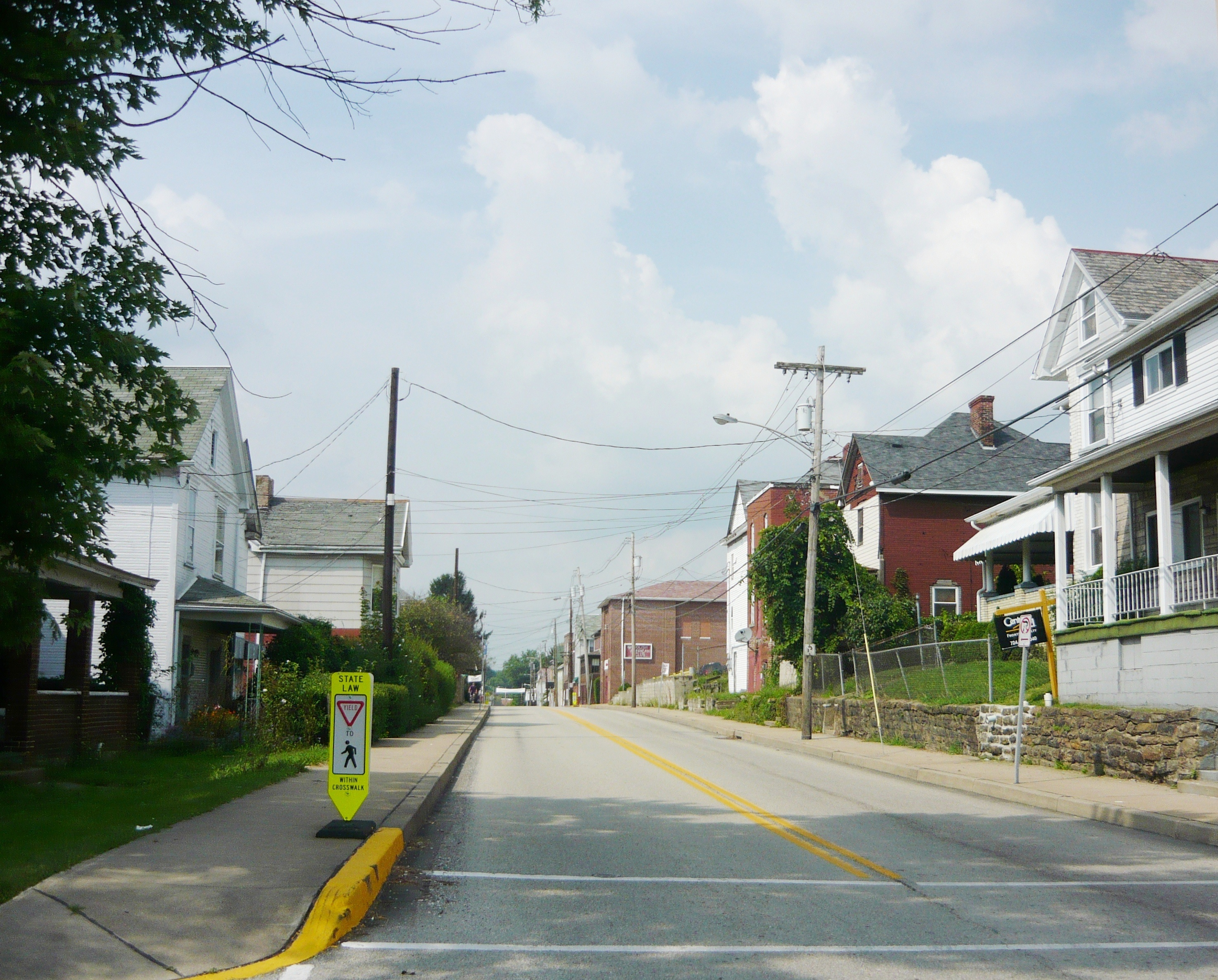 Brown Street, Everson, Fayette County, Pennsylvania.